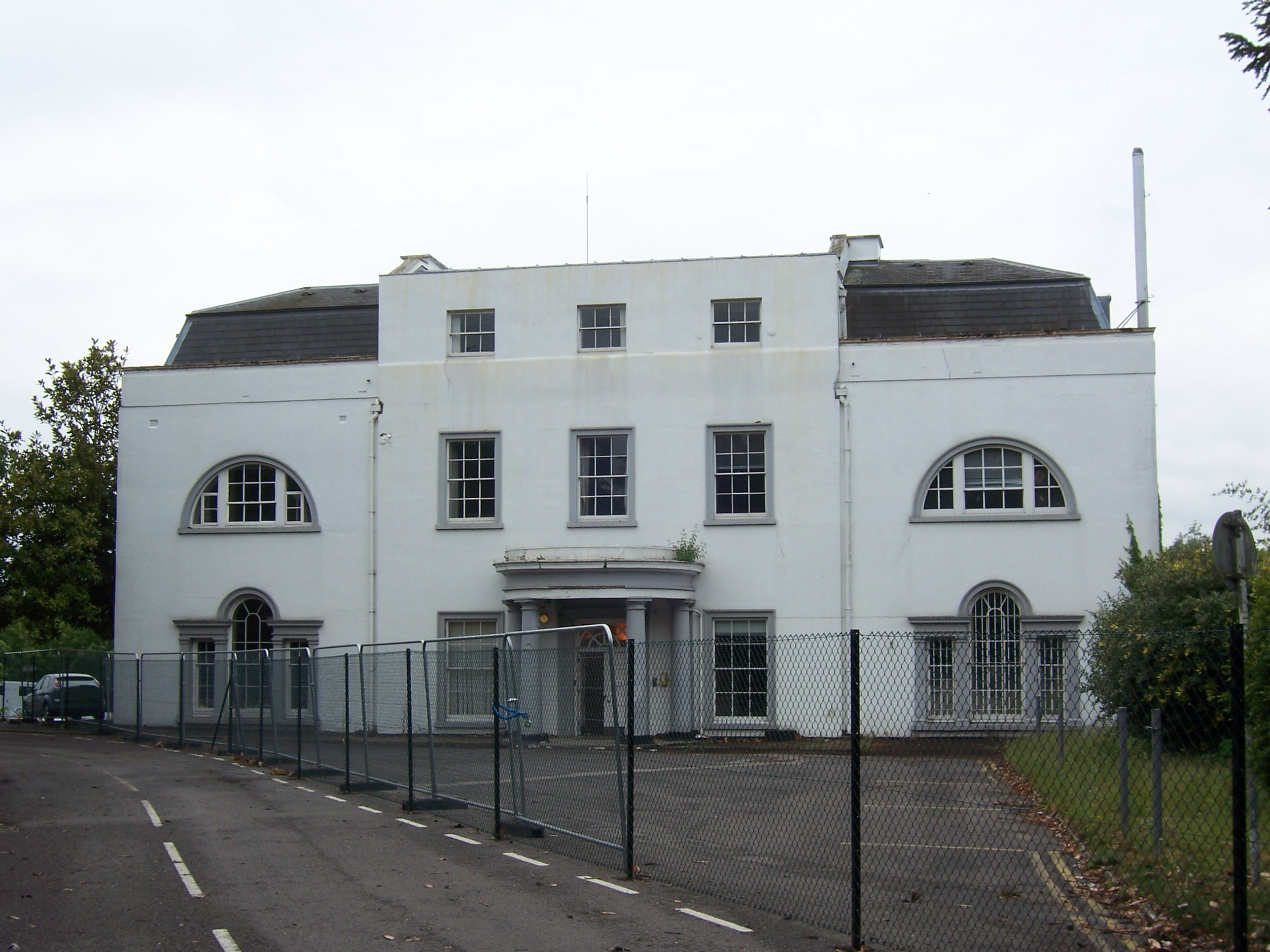 Front of Hillingdon House